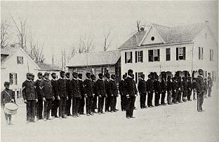 Students in military formation at Calhoun Colored School.